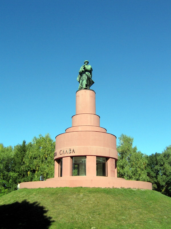 Museum-preserve is Battle for Kyiv in 1943